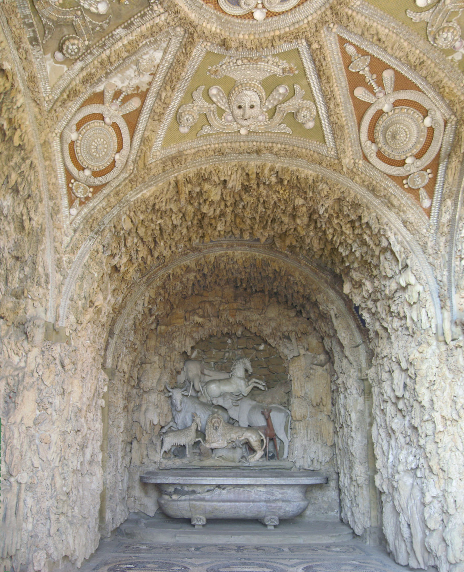 The Grotto of animals by Giambologna in the Villa Medici of Castello, Florence, Italy.